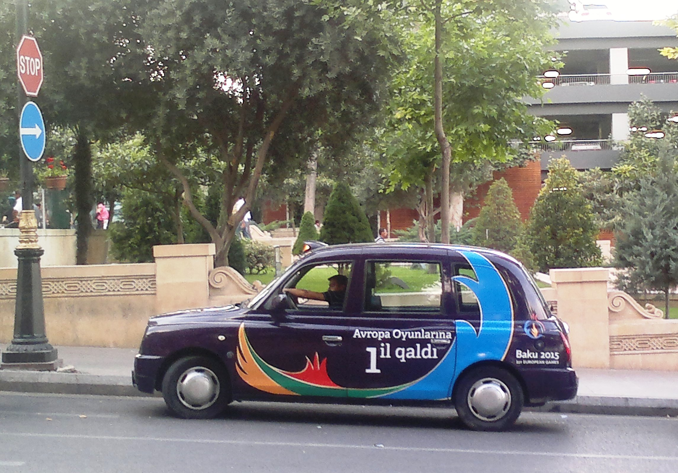 Baku taxi with European Games 2015 logo